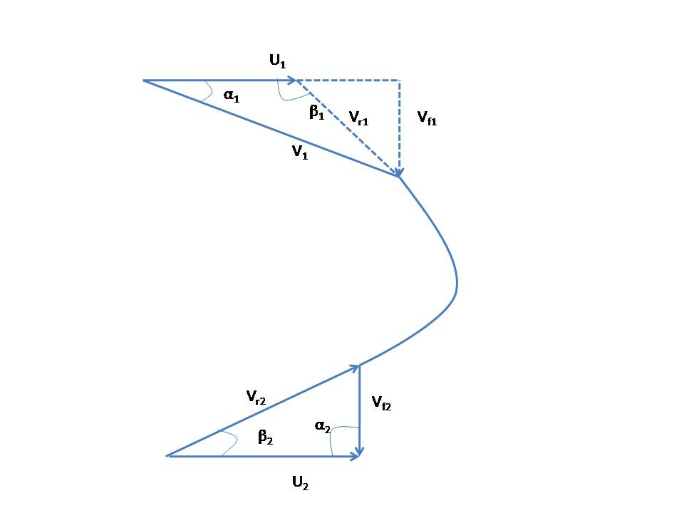 This velocity diagram clearly shows that in ideal cases the whirl component of outlet velocity is zero i.e at the outlet the flow is entirely axial.